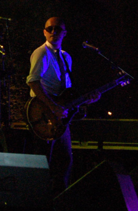 Fabio "Sir" Merigo, italian guitar player